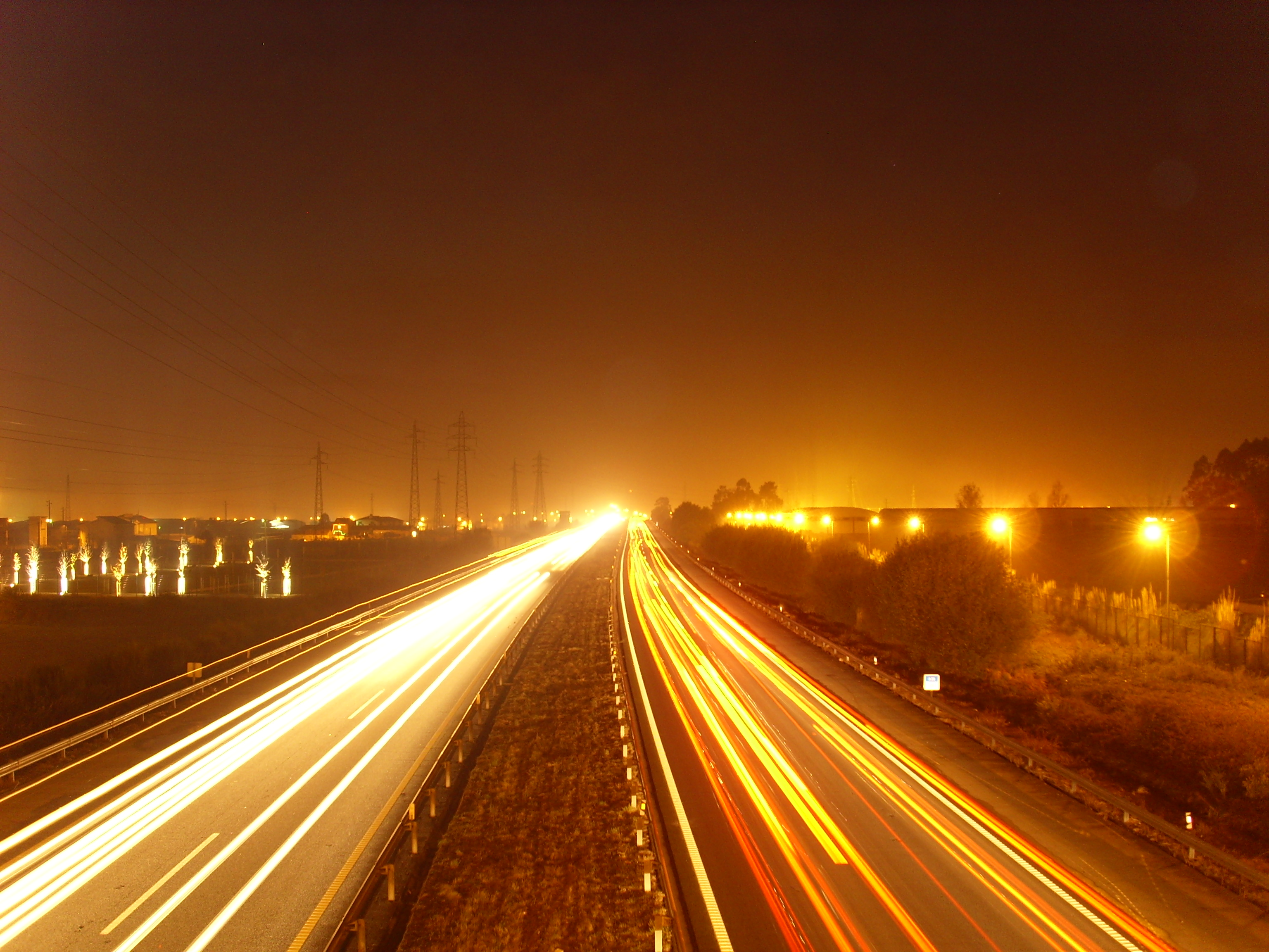 A28 Motorway/freeway in Póvoa de Varzim